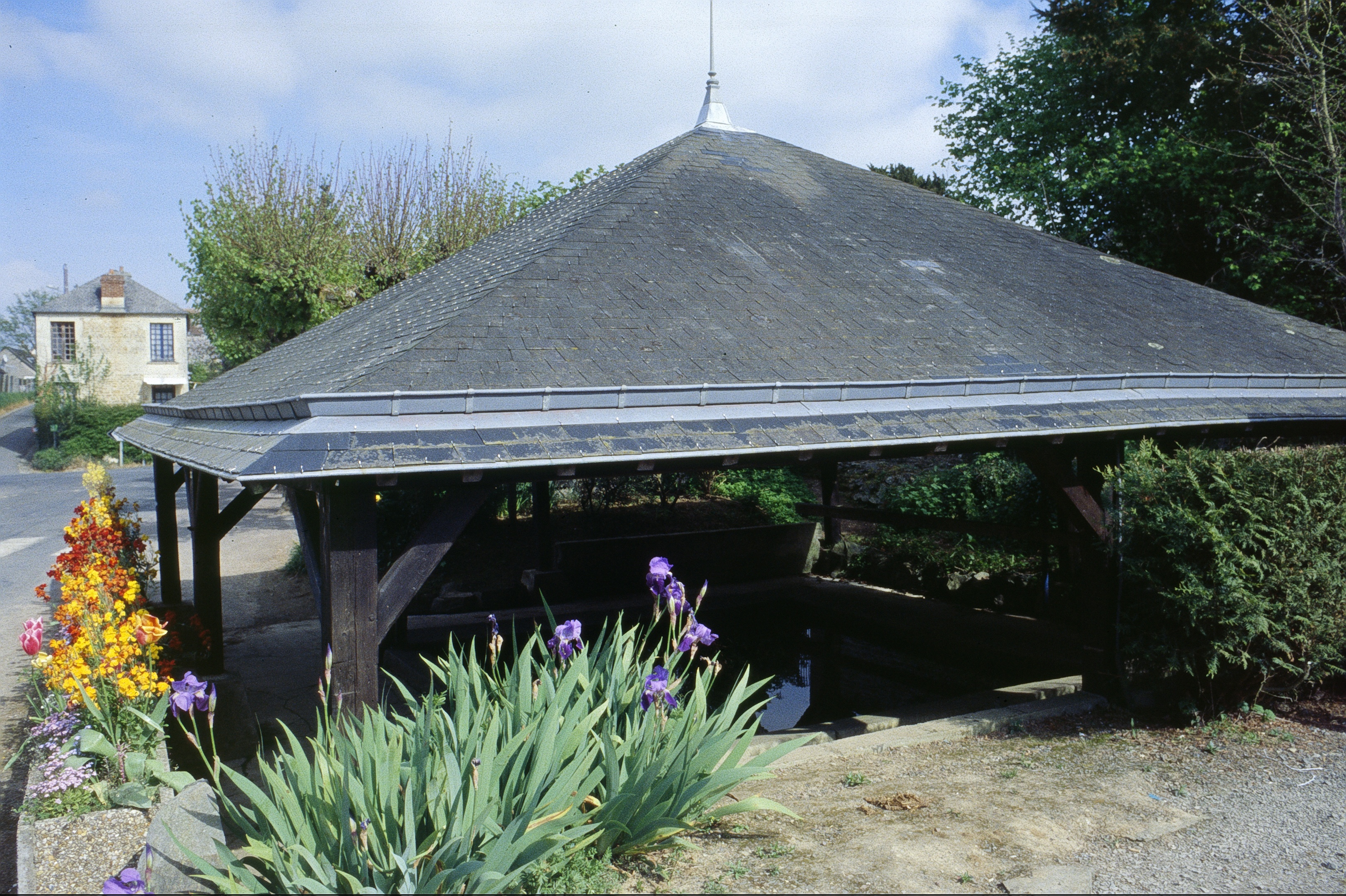 Public wash house in Boulon (14)Calvados